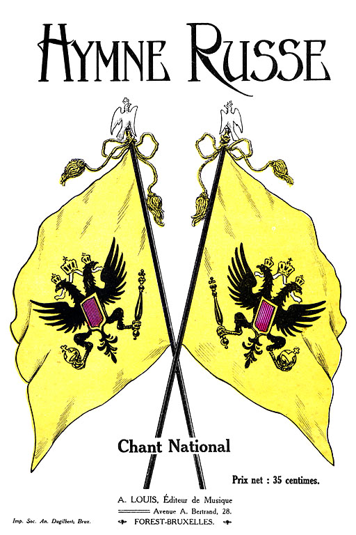 God Save The Tsar! The book cover. The pages from printed music published in St. Petersburg in 1840, showing autographs of sheet music and lyrics by Lvov and Zhukovsky, respectively, as well as German and French translations.